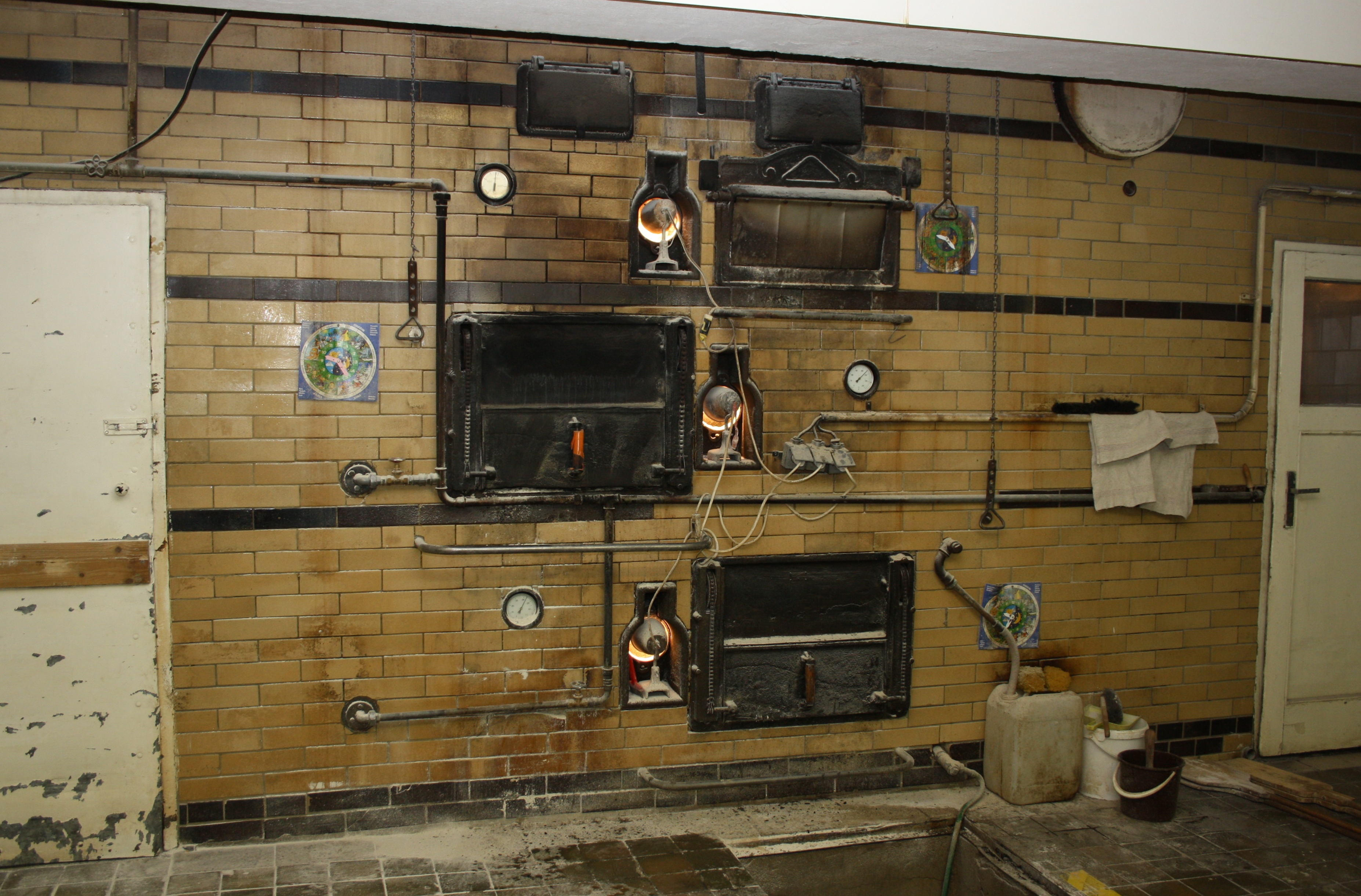 Oven for bread in Czech Republic This photograph was taken with a DSLR from WMCZ's Camera grant. This picture was taken and/or got within the scope of the 'Acquiring scientific and specialized pictures' grant.